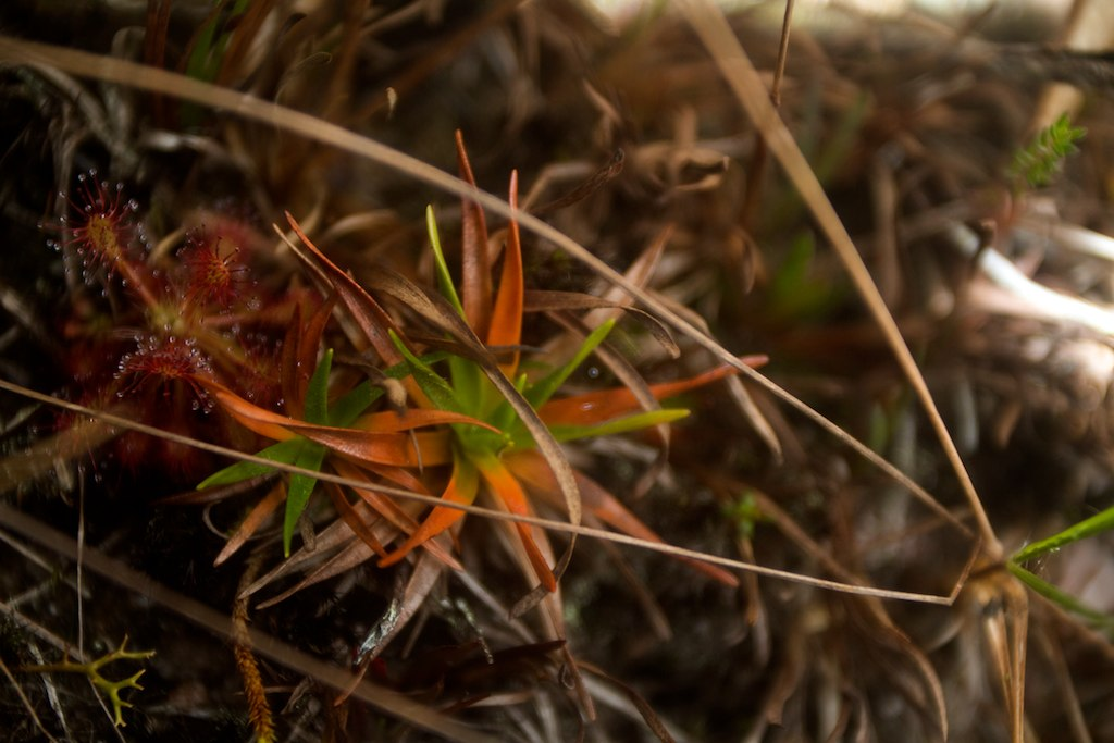 Paepalanthus convexus (middle) and Drosera roraimae (left) in mount Roraima, Venezuela